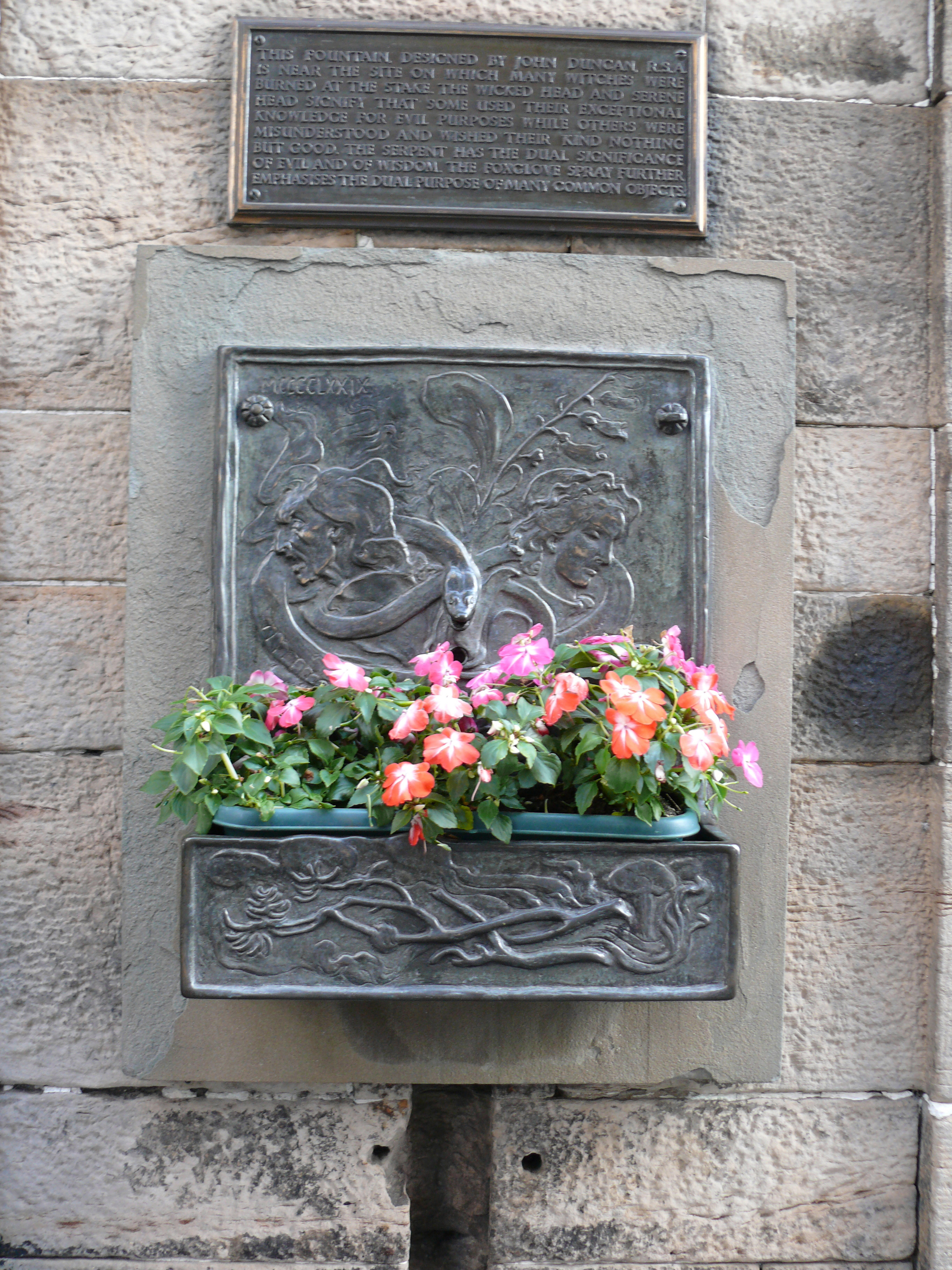 The Witches' Well near Edinburgh Castle on the Esplanade. A cast iron wall fountain commemorates that here over three hundred women were burned at the stake accused of being witches. In the 16th Century more witch burnings were carried out at Castle Hill than anywhere else in Britain. The victims often suffered brutal torture before being put to death at the stake. They were often nearly drowned by being 'douked' in the Nor Loch (now Princes Street Gardens). The plaque reads: "This Fountain, designed by John Duncan, R.S.A. Is near the site on which many witches were burned at the stake. The wicked head and serene head signify that some used their exceptional knowledge for evil purposes while others were misunderstood and wished their kind nothing but good. The serpent has the dual significance of evil and wisdom. The Foxglove spray further emphasises the dual purpose of many common objects."